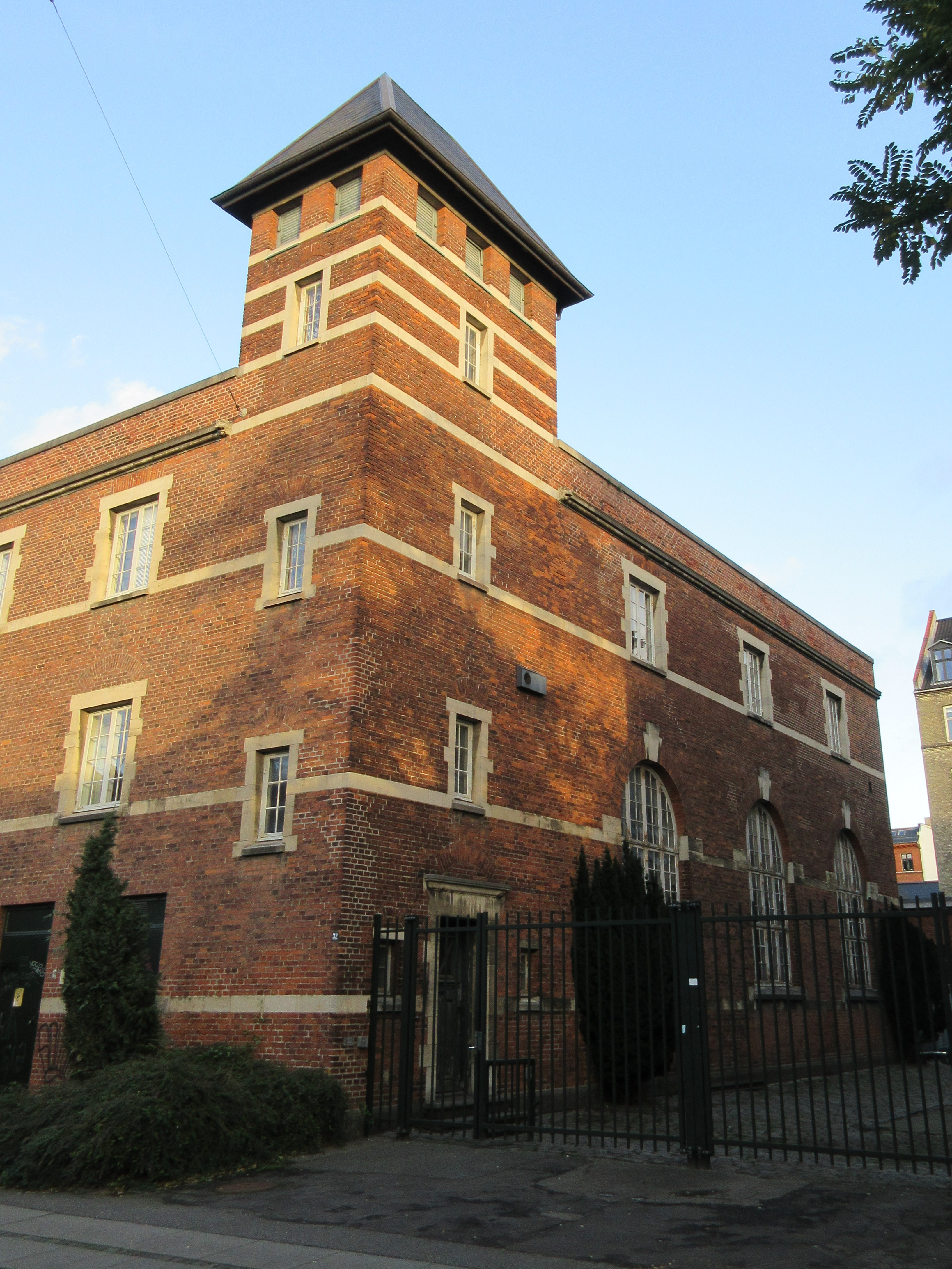 Sankt Knuds Værket on Sankt Knuds Vej in Copenhagen, Denmark